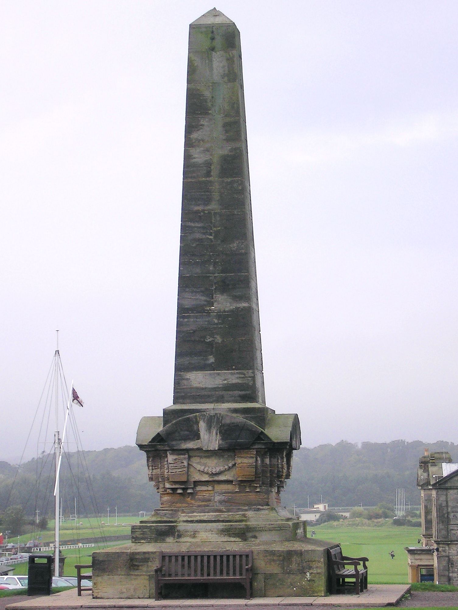 The Martyrs' Monument at Saint Andrews commemorates those executed before the Scottish Reformation, including Patrick Hamilton and George Wishart.